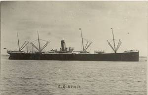 SS Afric